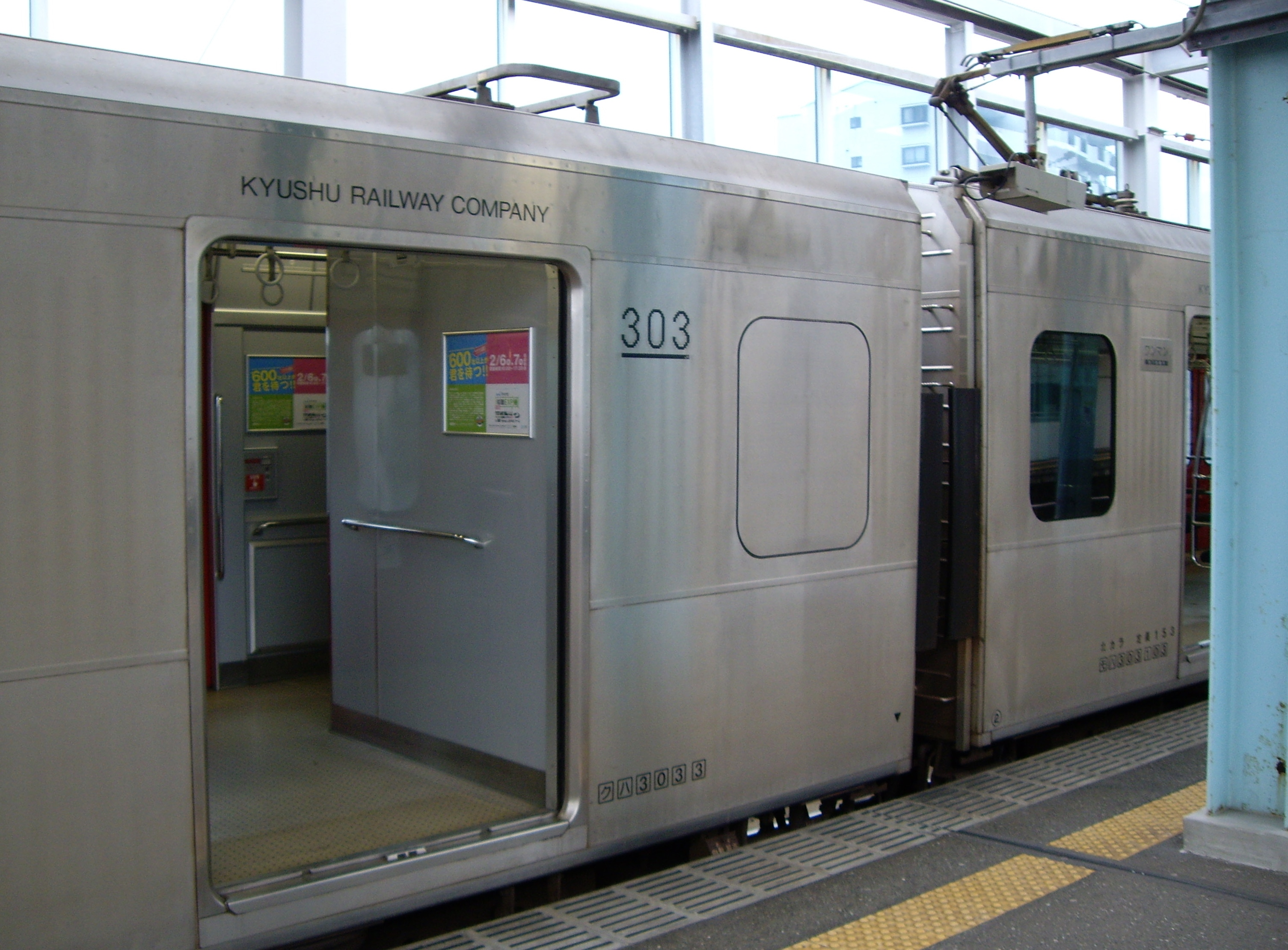 The blanked-off window at the retro-fitted toilet position on car KuHa 303-3 of JR Kyushu 303 series EMU set K03